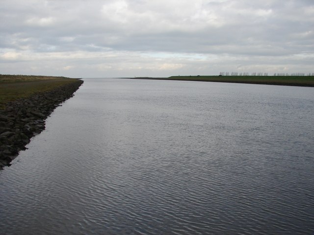 Tycho Wing's Channel Stretch of the River Nene as it reaches The Wash. Named after the prominent surveyor and instrument maker of the same name.